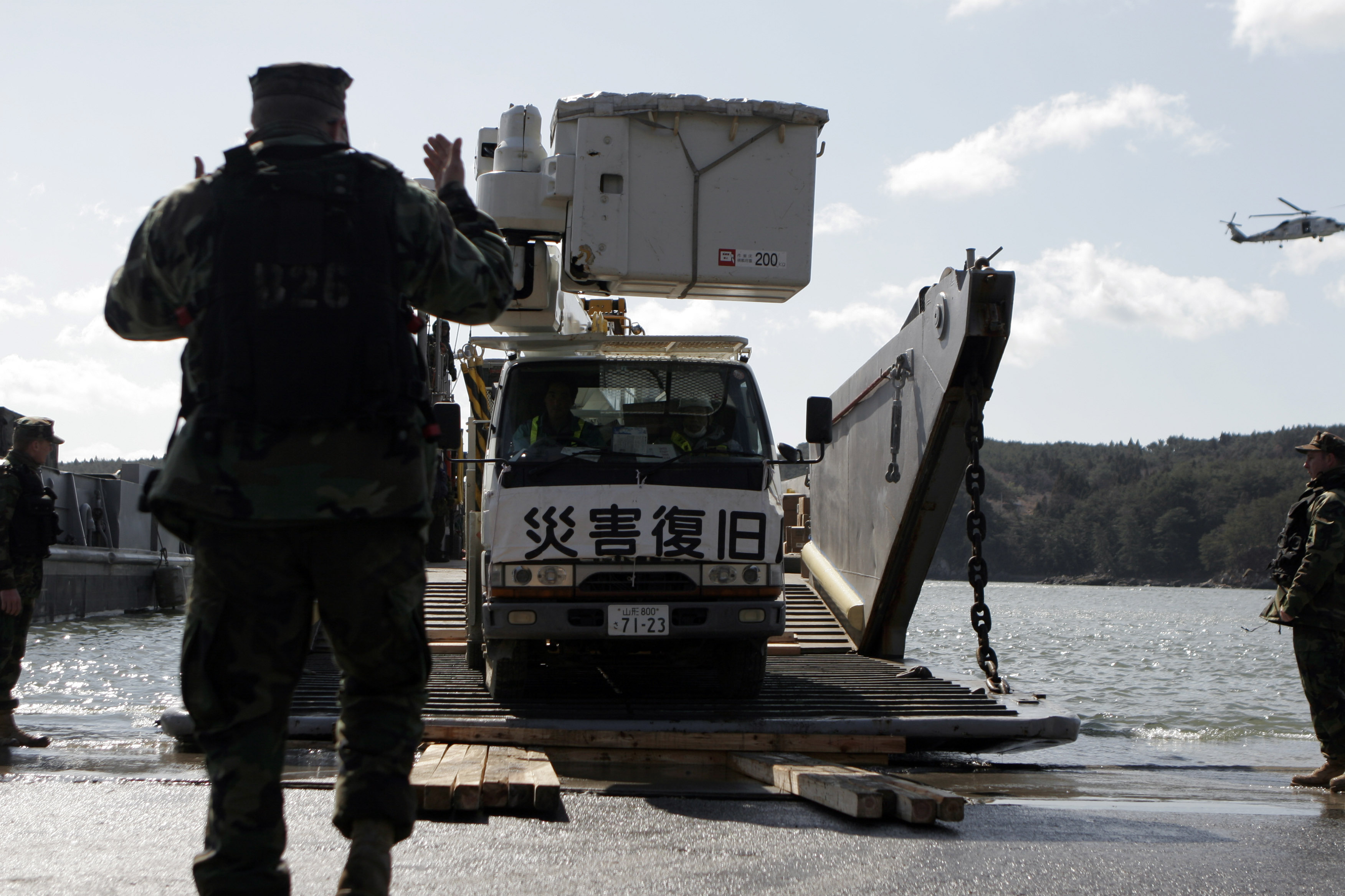 Electric utility truck arrives in tsunami zone